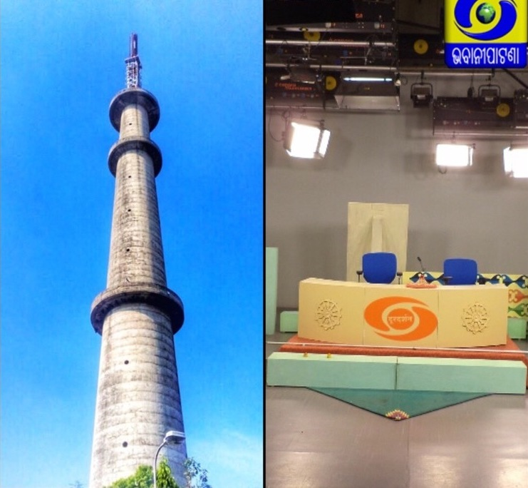 Doordarshan Kendra, Bhawanipatna